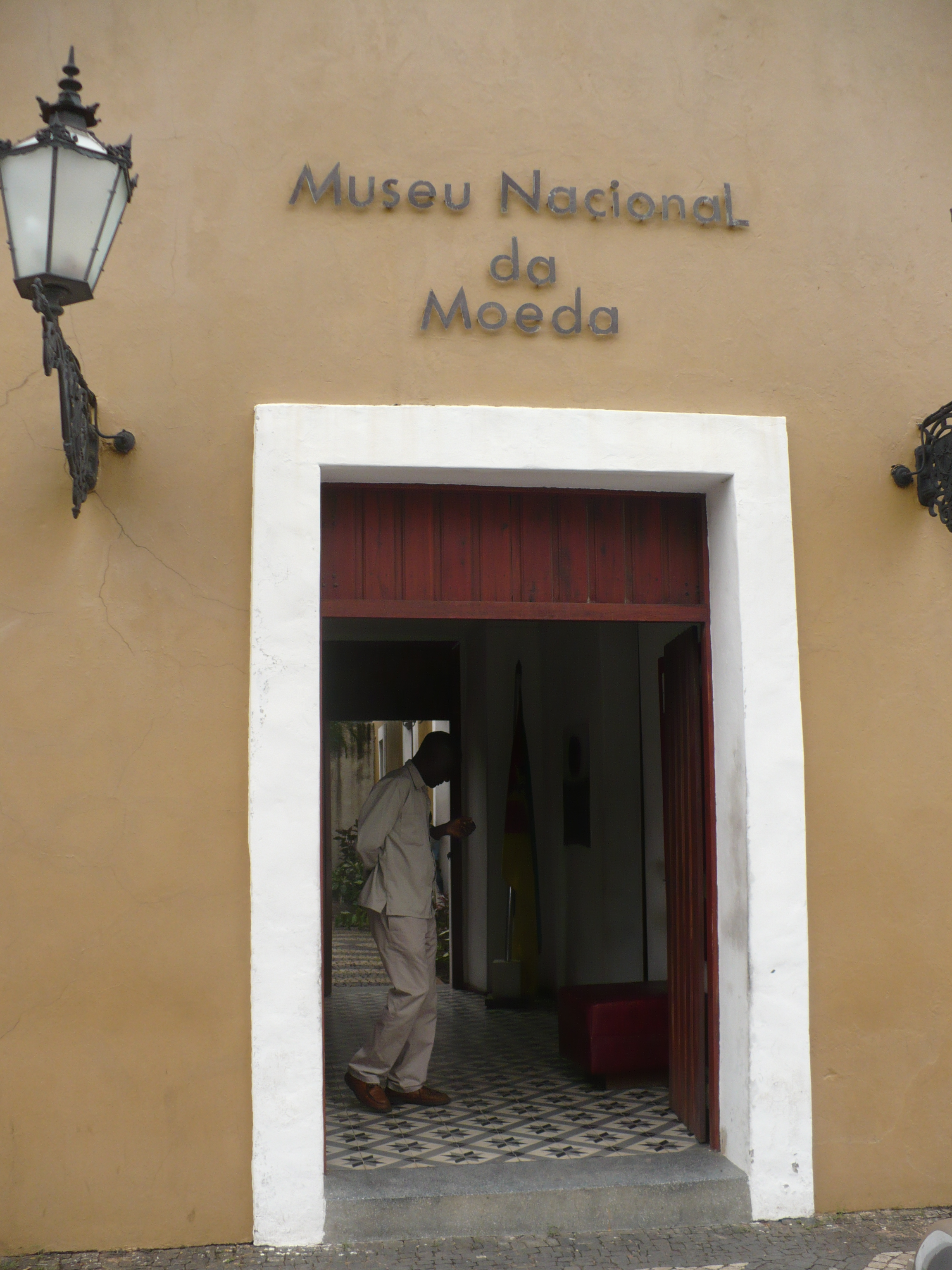 National Coin Museum, Casa Amarela ("Yellow House") in Maputo, Mozambique